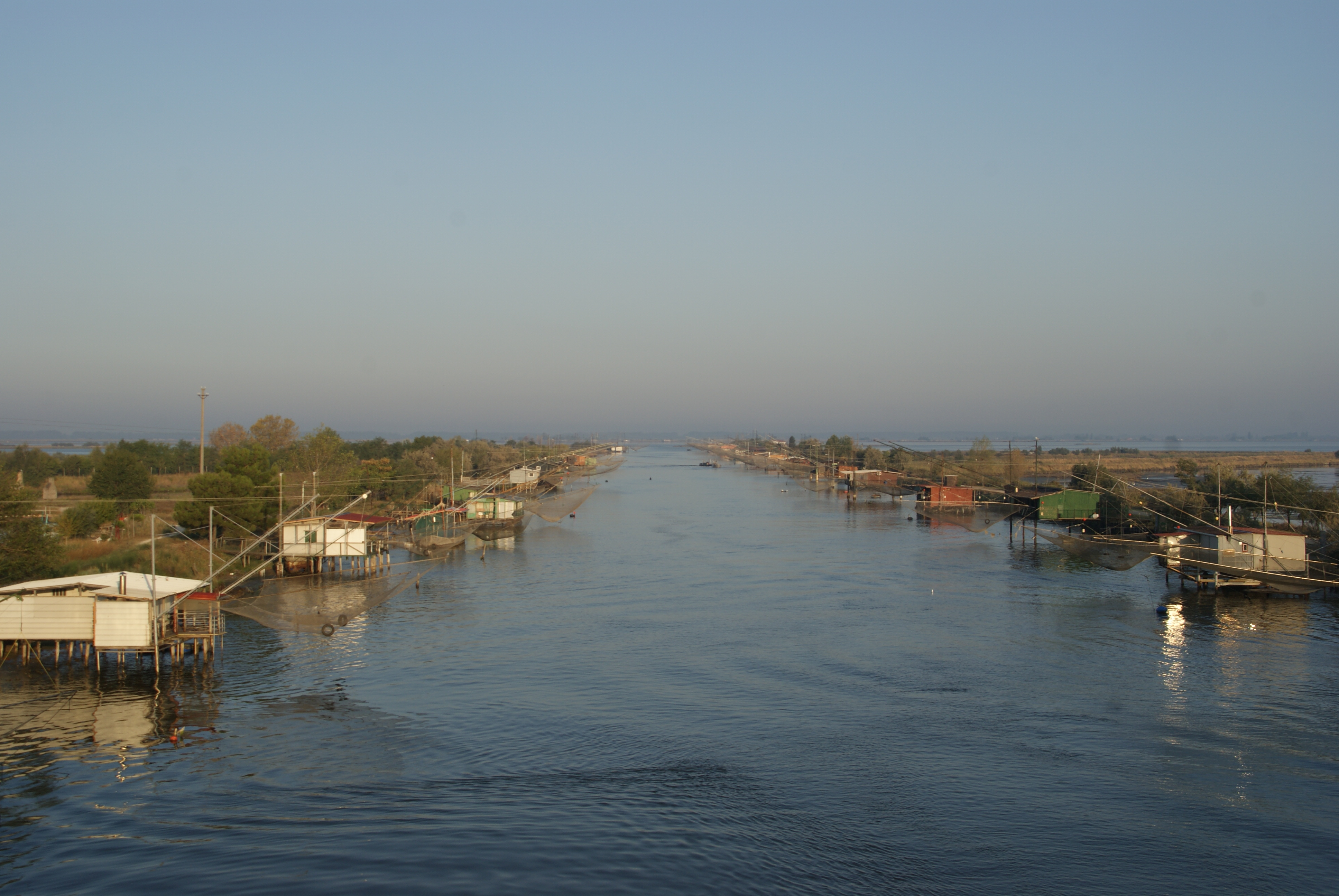 Fishing lodges at Portocanale, Valli di Comacchio